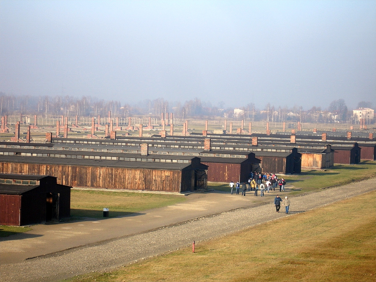 Barracks Auschwitz ll (Birkenau)